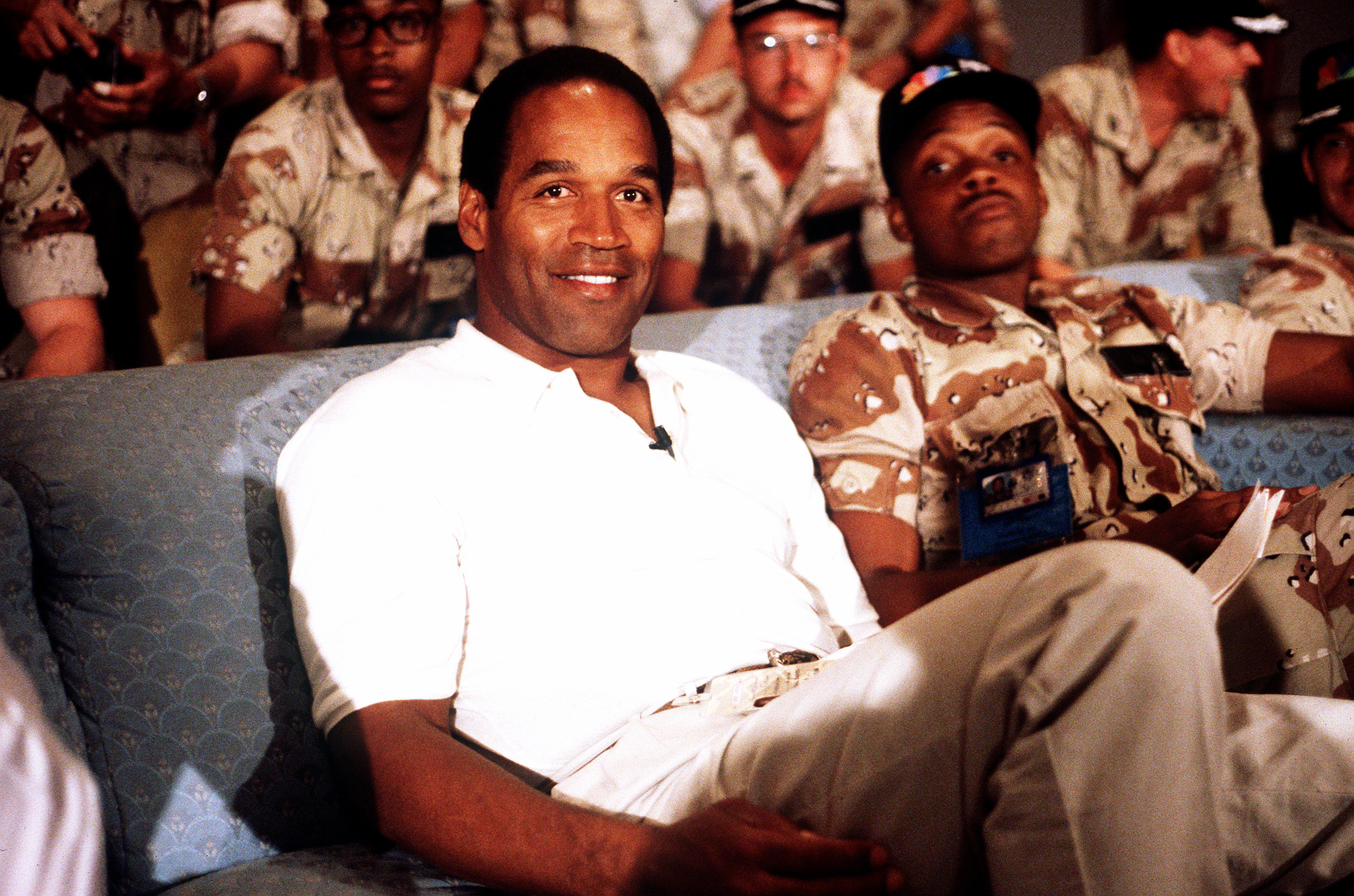 NBC Sports commentator and former professional football player O. J. Simpson sits with a group of servicemen to watch a Thanksgiving Day football game. Simpson is visiting U.S. troops who are in the region for Operation Desert Shield.